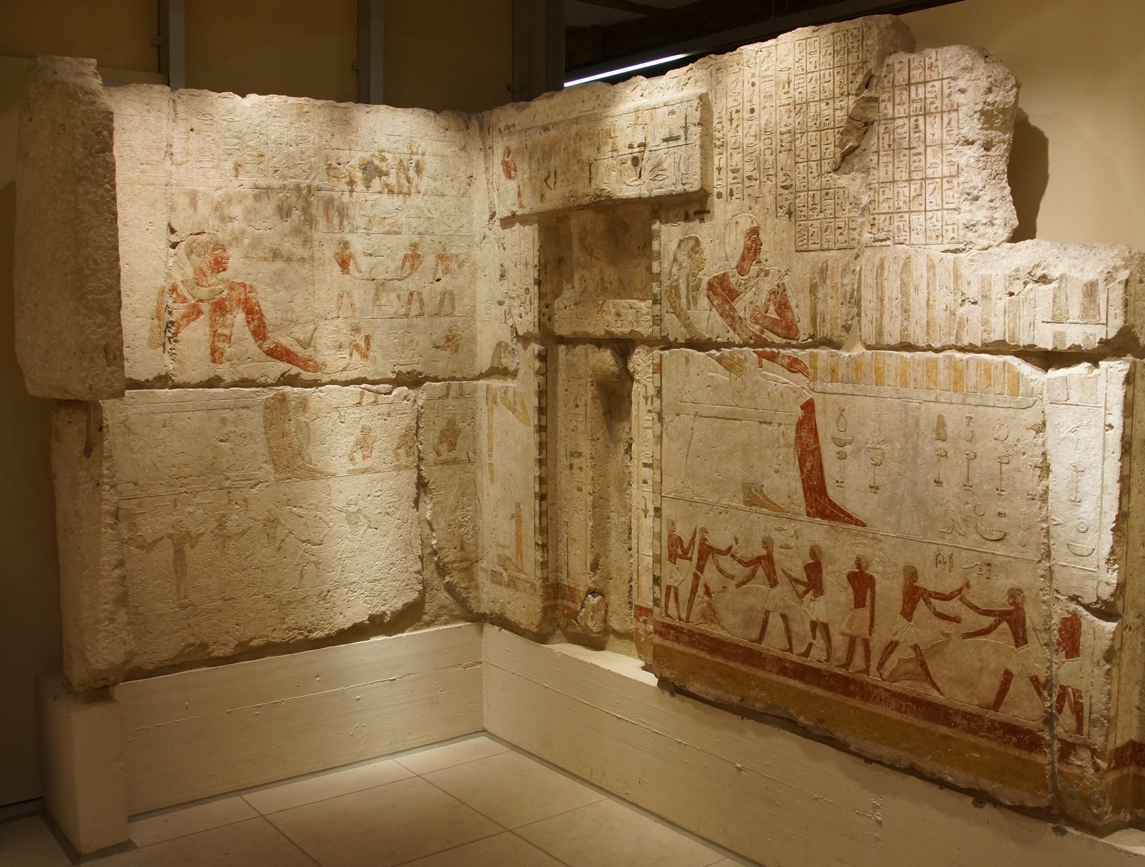 Burial Chamber of Seshemnofer III in the museum of the University of Tübingen (Germany) in the castle of Tübingen.